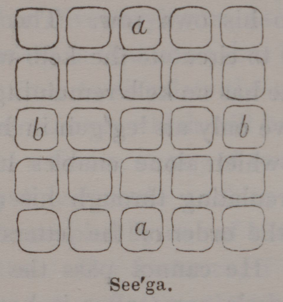 A game played by making holes in the ground. Engraving (prints).